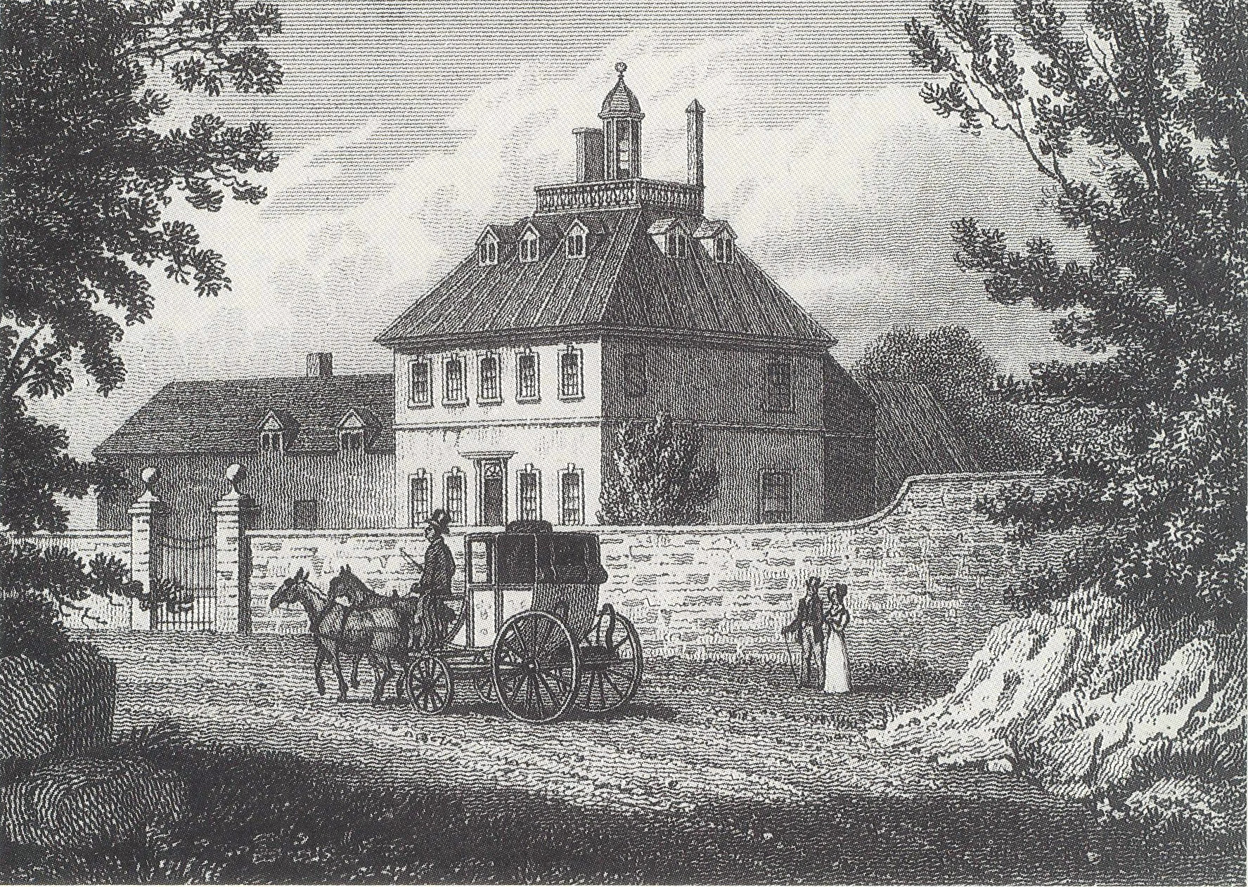 Drawing of Edial Hall School, Burntwood from the south east in 1824.